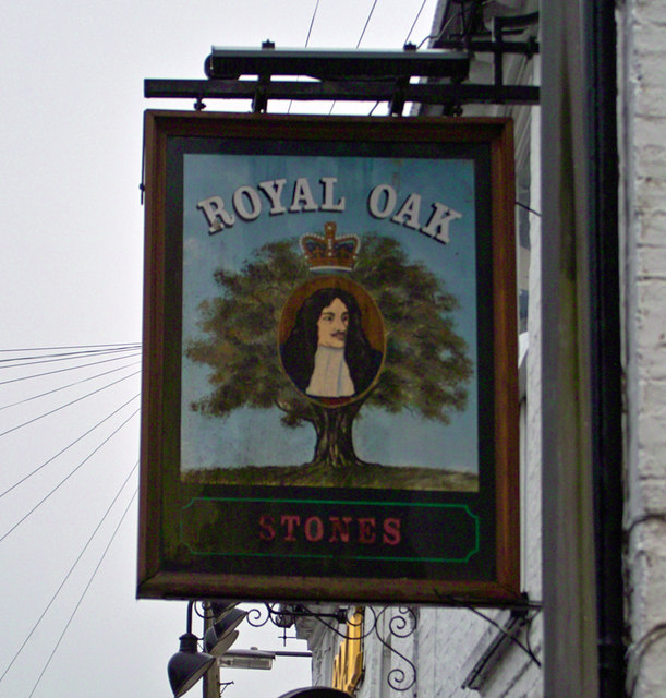 The Sign of the Royal Oak, Barrow Upon Humber. Inn sign of The Royal Oak 200060 Barrow Upon Humber.